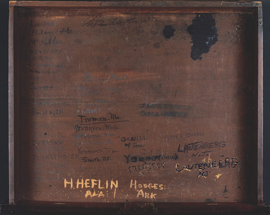 U.S. Senate desk occupied by future President Harry S. Truman (D-MO), Howell Heflin (D-AL), Kaneaster Hodges, Jr. (D-AR), Elaine Edwards (D-LA), Frank Lautenberg (D-NJ), Price Daniel (D-TX) and others